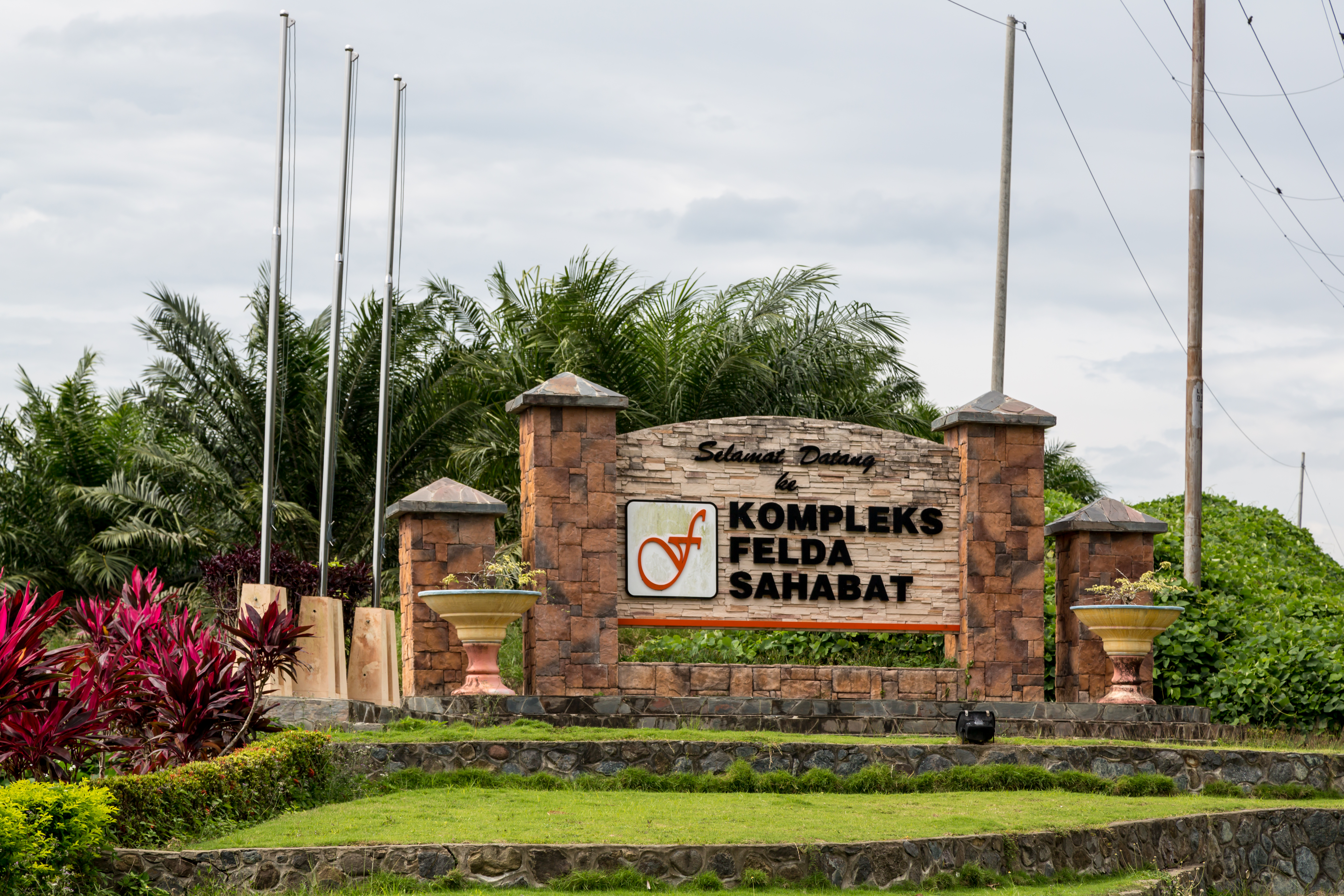 Tunku, Sabah: Main gate to Felda Sahabat Complex